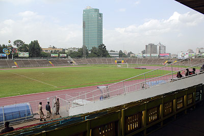 Addis Ababa Stadium